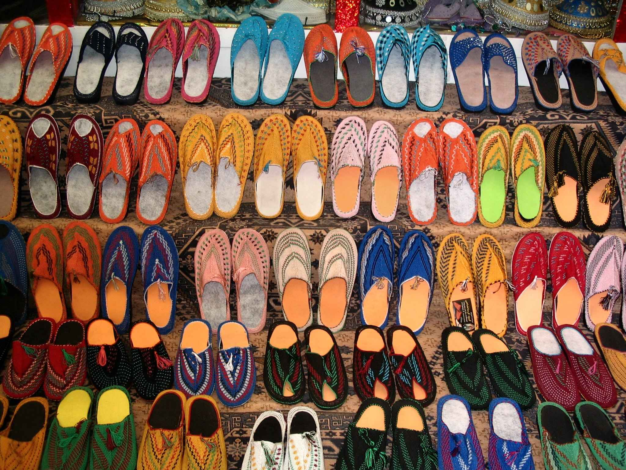 Traditional handmade shoes in Ali Sadr, Hamedan Province, Western Iran.